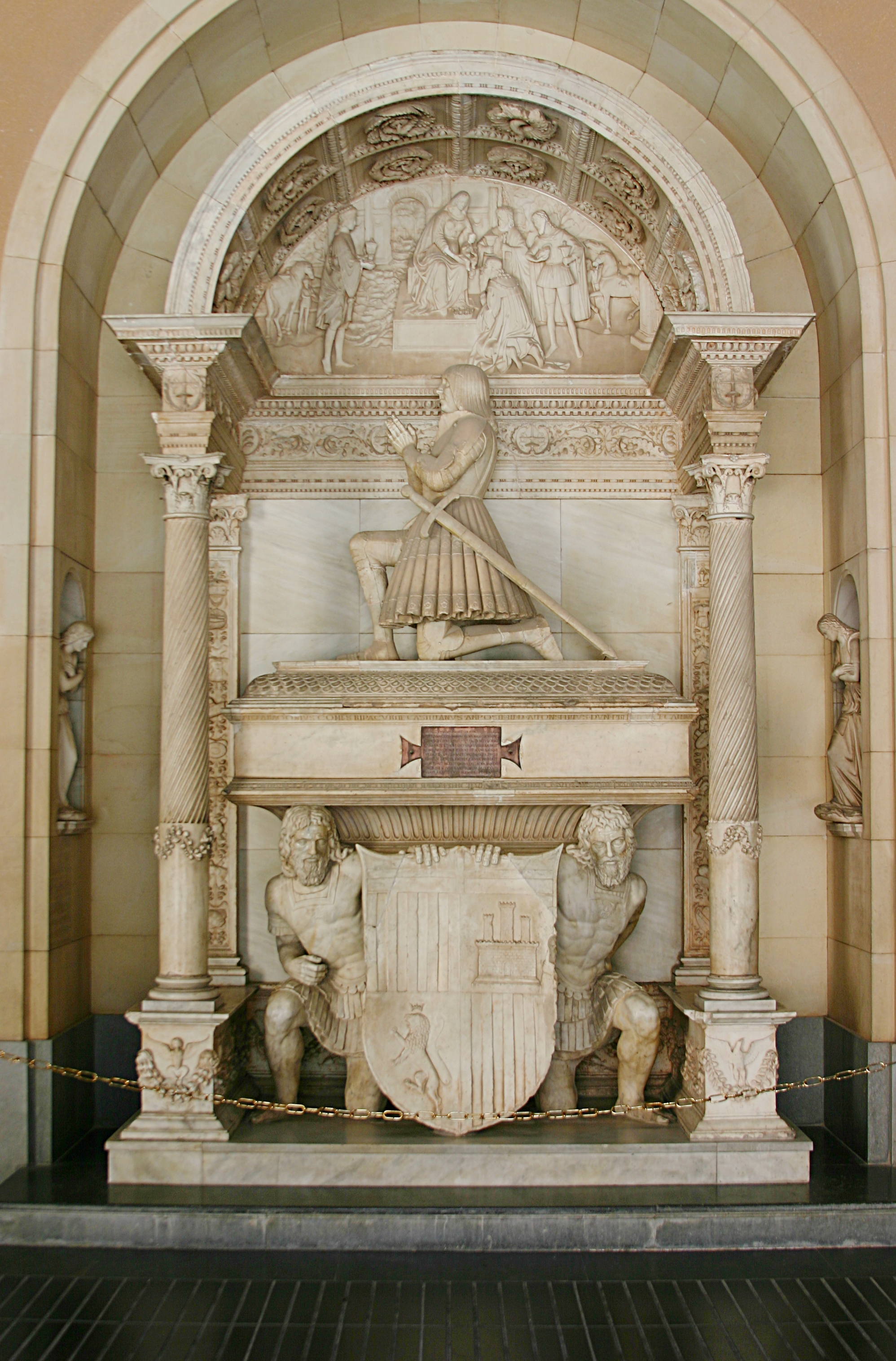 Interior of the Basilica of Montserrat